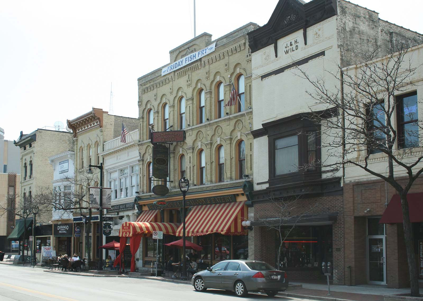 Old World Third Street Historic District, National Registered Historic Place, Milwaukee, Wisconsin.